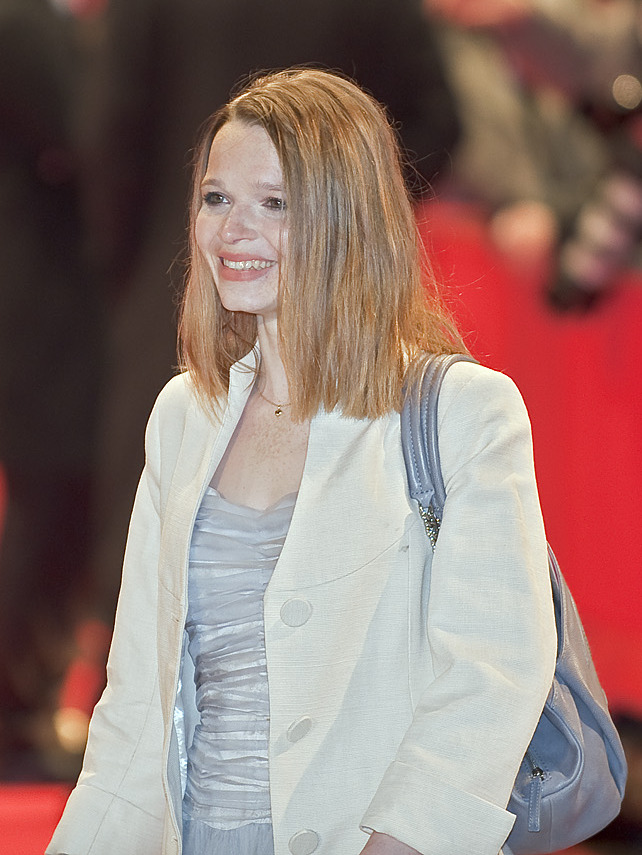 Karoline Herfurth (German actress); arrival for the opening of the 59th Berlin International Film Festival